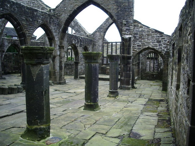 Church of St Thomas a Becket, Heptonstall, near to Heptonstall, Calderdale, Great Britain.